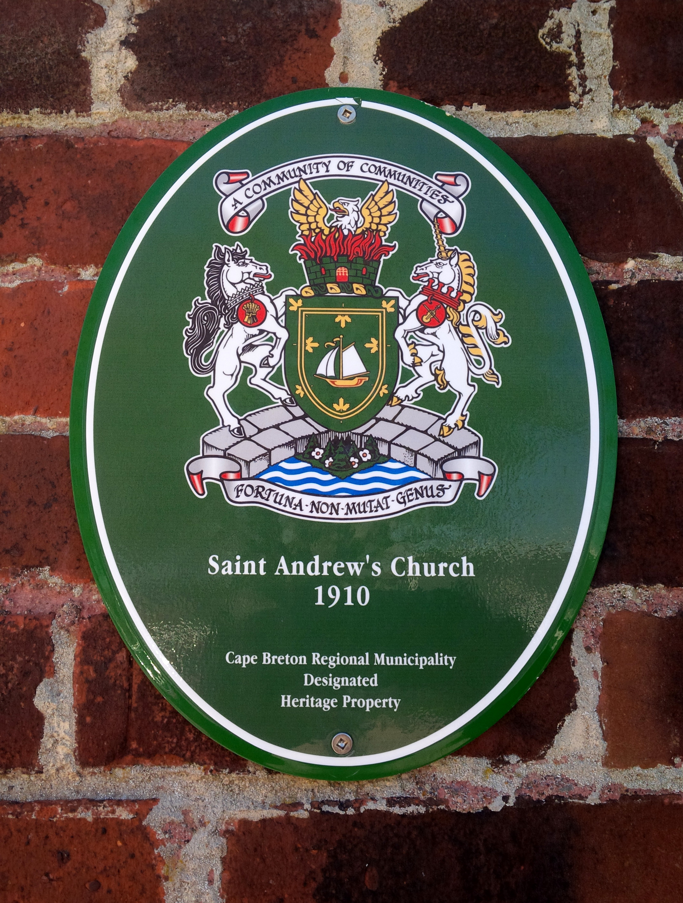 The Highland Arts Theatre is a historic building, first constructed as a Presbyterian Church, now operating an arts and culture centre in Sydney, Cape Breton Regional Municipality, Nova Scotia, Canada. It was initially constructed as St. Andrew's Presbyterian Church. In June 2014 St. Andrew's reopened as the Highland Arts Theatre, a live play and film theatre and concert venue located in Sydney's waterfront district.